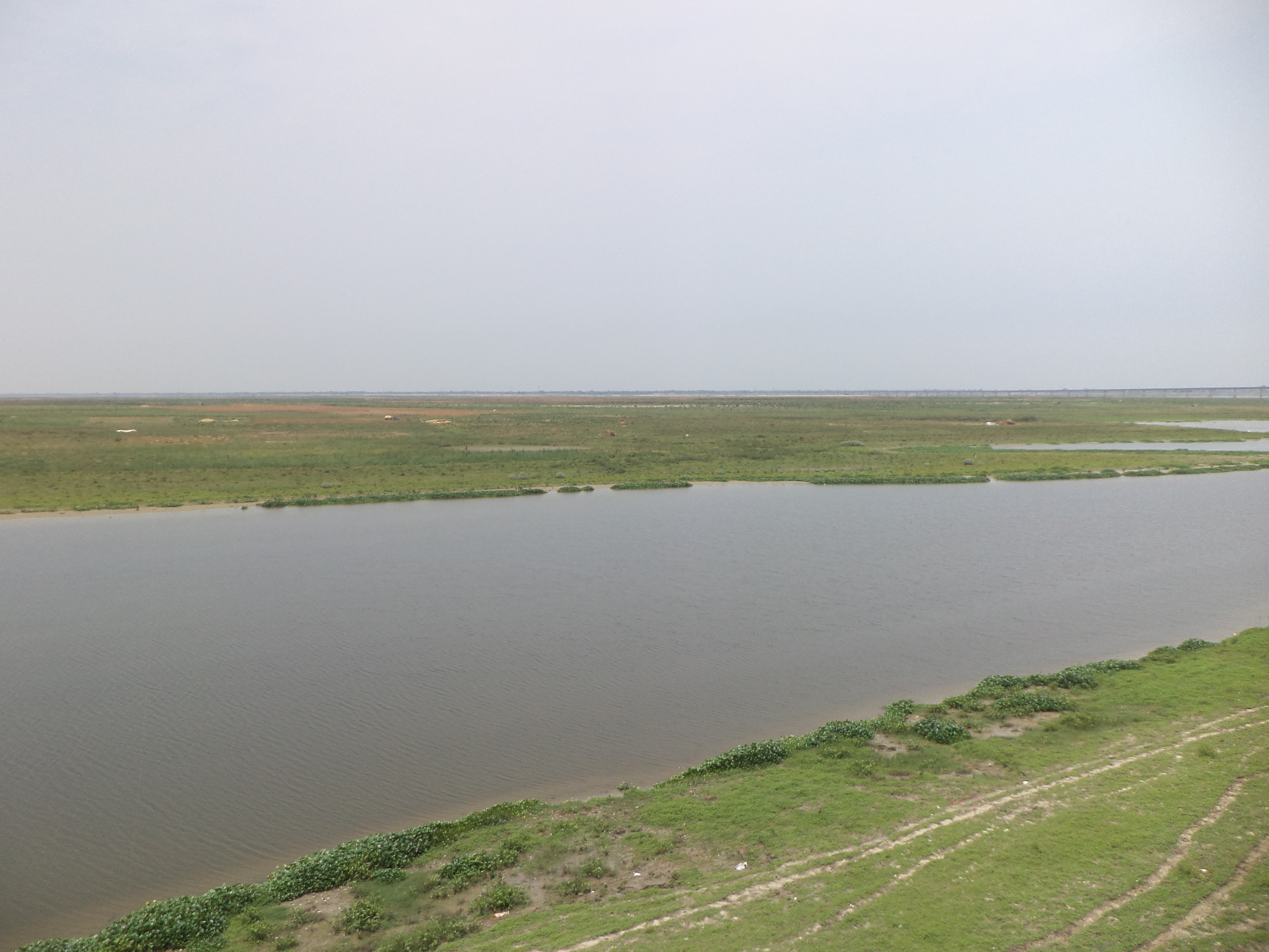 This pic is of river Ganga from Bhagalpur area.